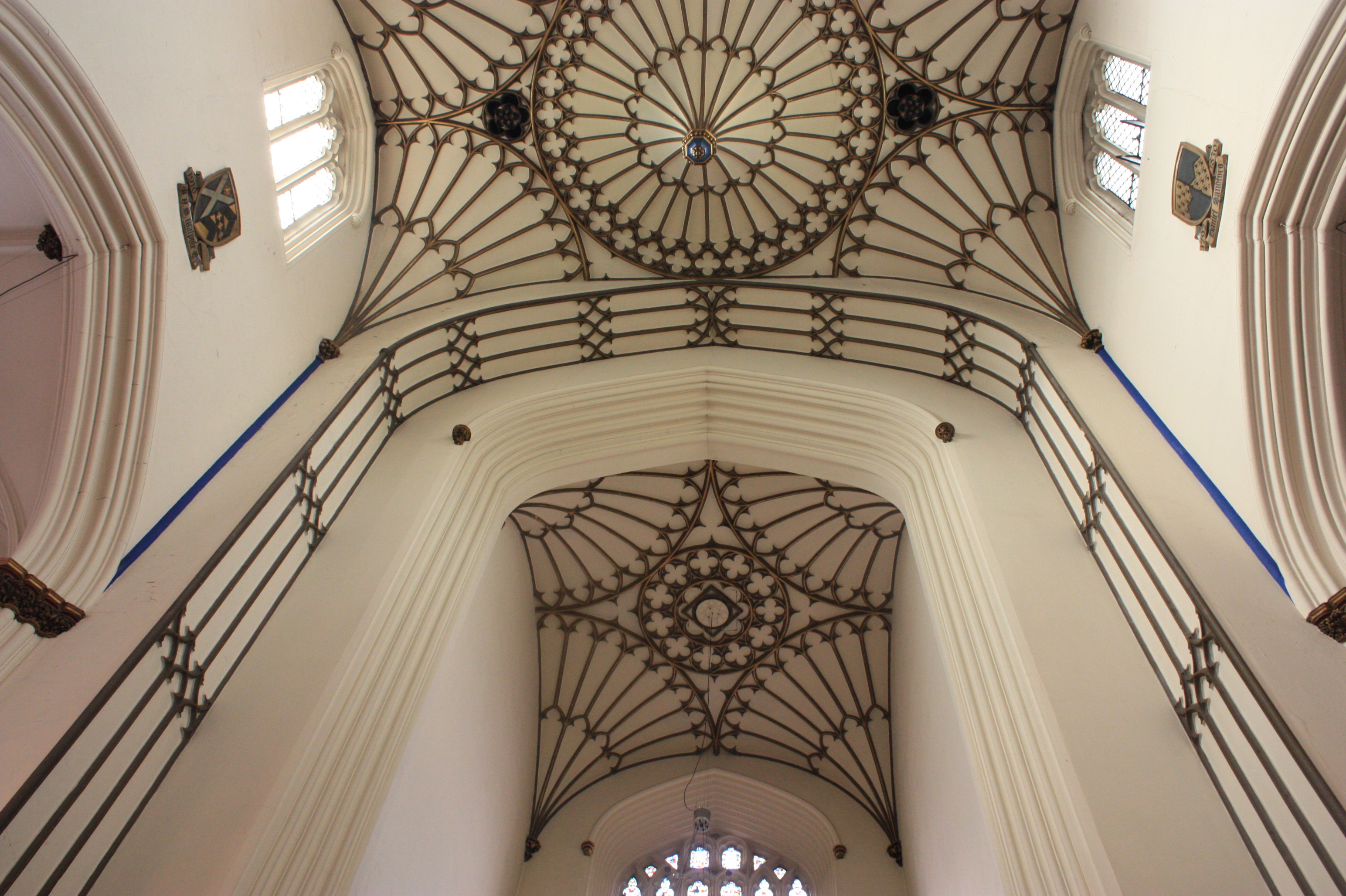 Supporting arch, St Johns, Princes Street, Edinburgh